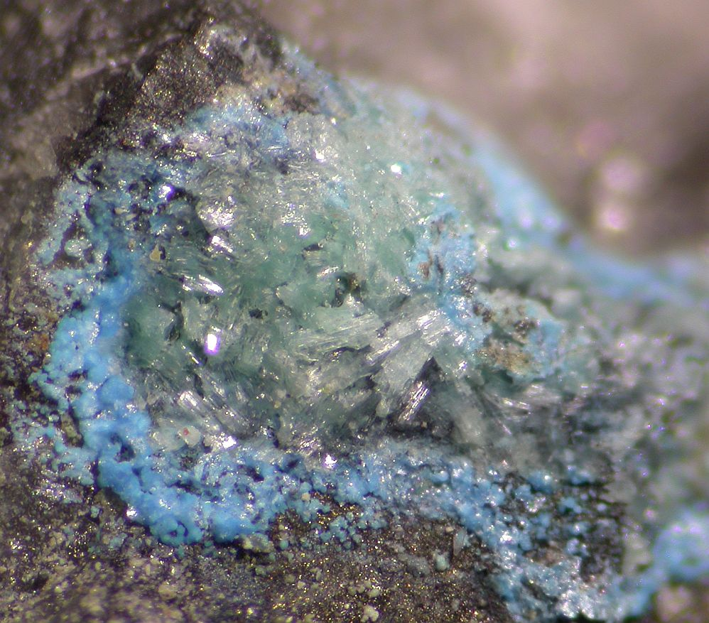 Light green ondrušite crystals with some blue lavendulan. Field of view 5 mm. From: Svornost Mine, Jáchymov, Jáchymov District, Krušné Hory Mts, Karlovy Vary Region, Bohemia, Czech Republic.